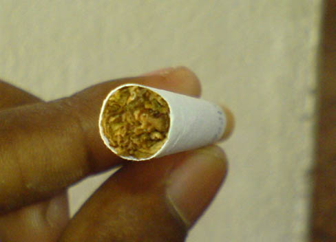 I took this photograph.